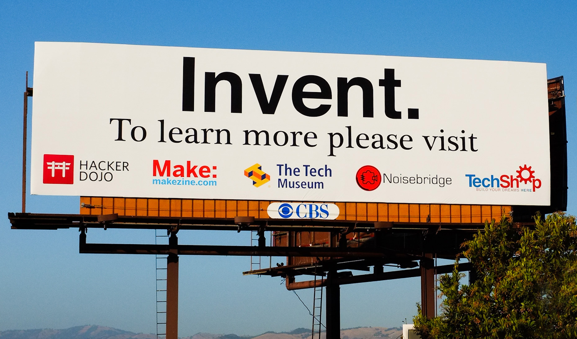 An outdoor advertising campaign by Matt Spergel for the Bay Area maker community in 2011.